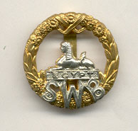 South Wales Borderers cap badge, showing the Sphinx